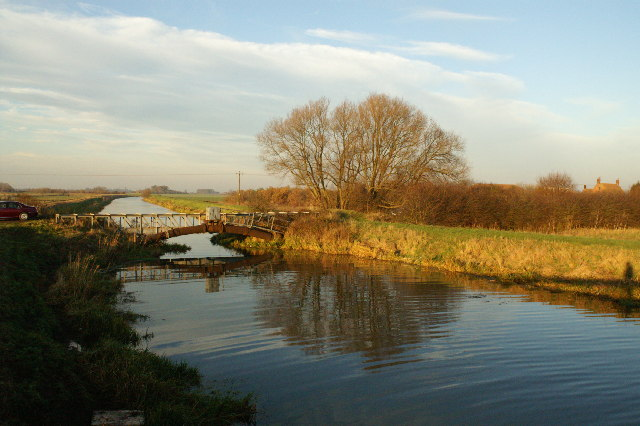 River Till from A57 road bridge.